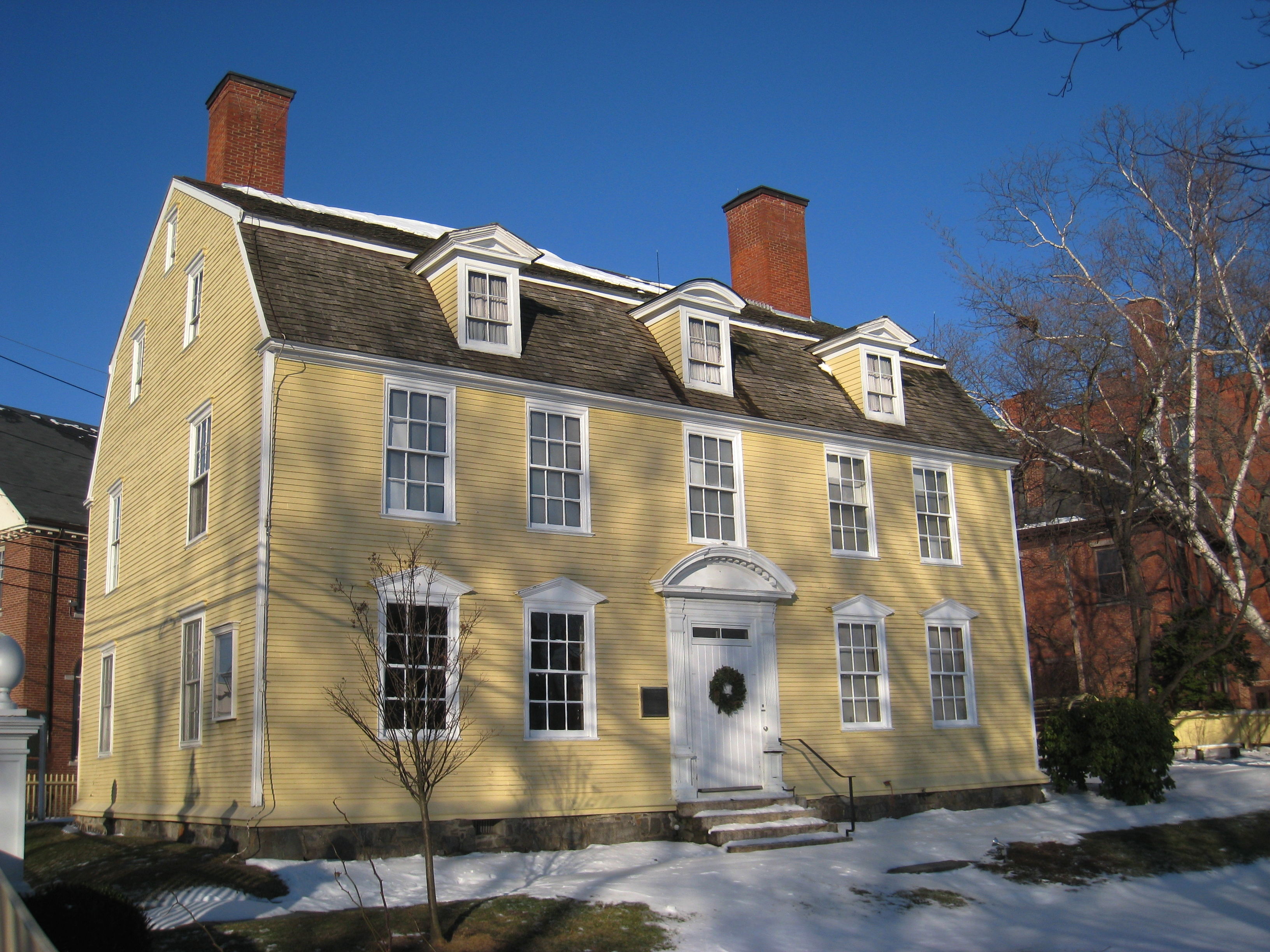 John Paul Jones House in Portsmouth, New Hampshire, USA. I took this photograph.